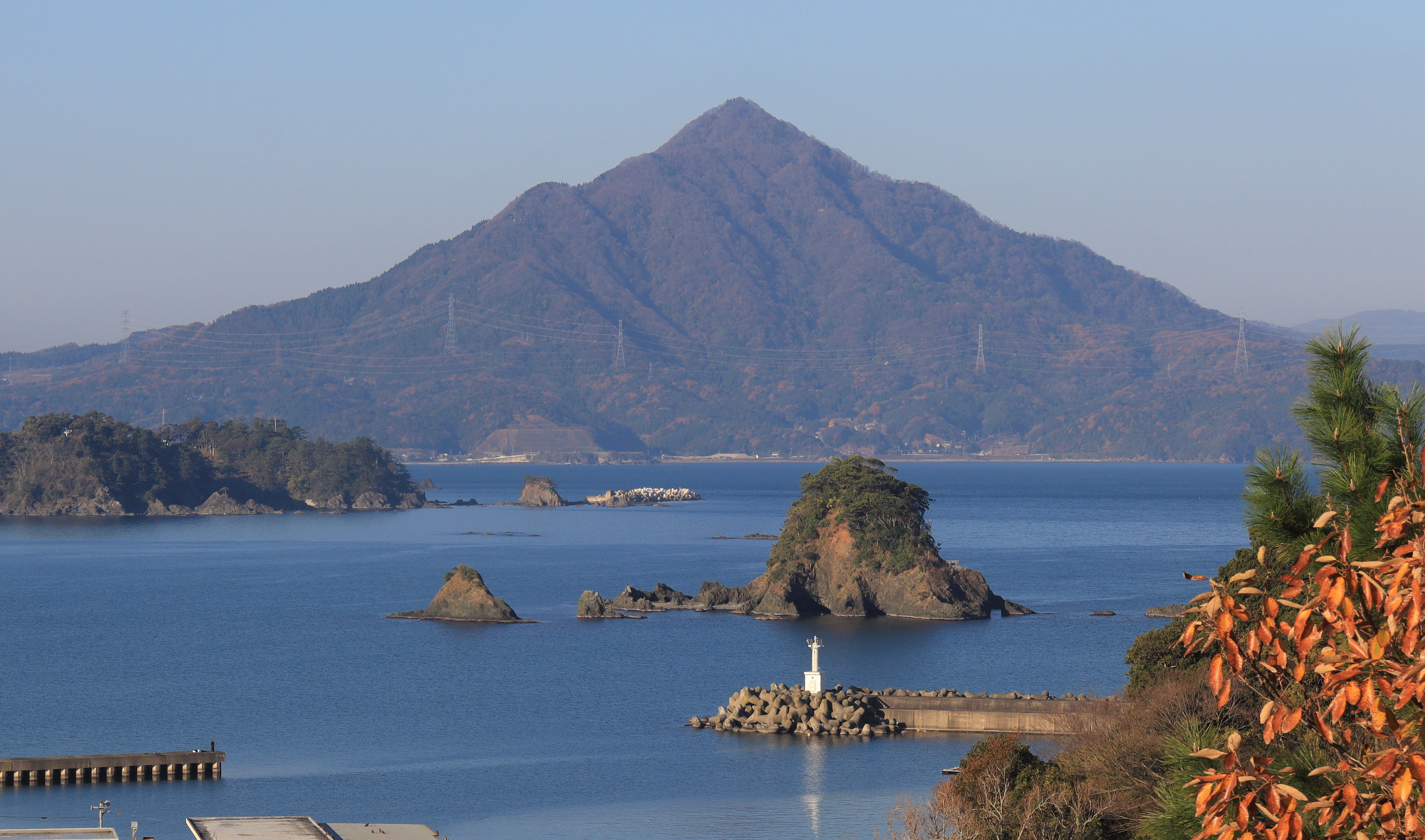 Mount Aoba (Kyoto, Fukui) over Takahama Bay and Hasegi Island in Takahama, Fukui Prefecture, Japan.